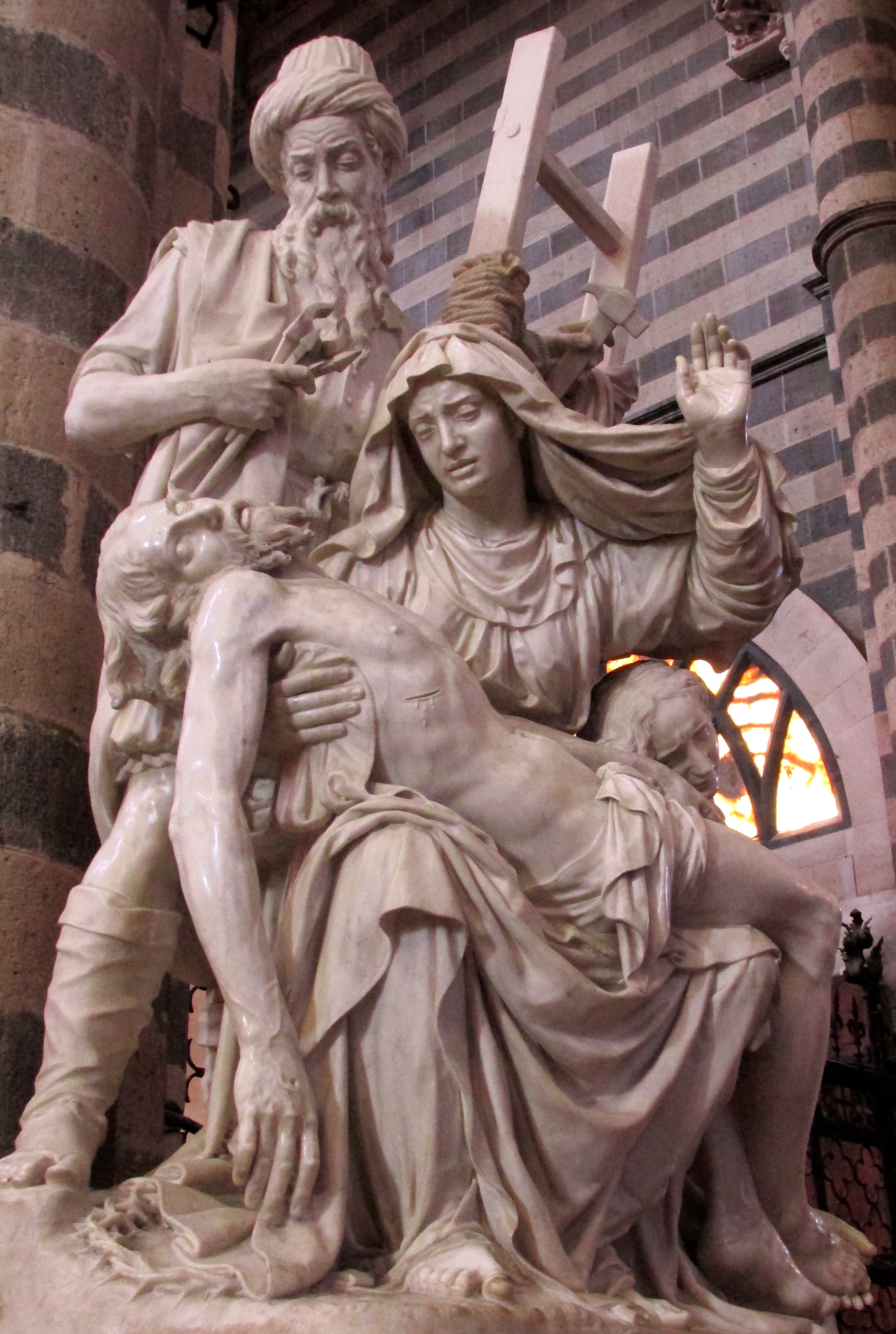 Pieta marble sculpture, by Ippolito Scalza (1579). Madonna holds the crucified Jesus Christ in her lap, with Saint Nicodemus standing to her right and Mary Magdalene mourning at her left.